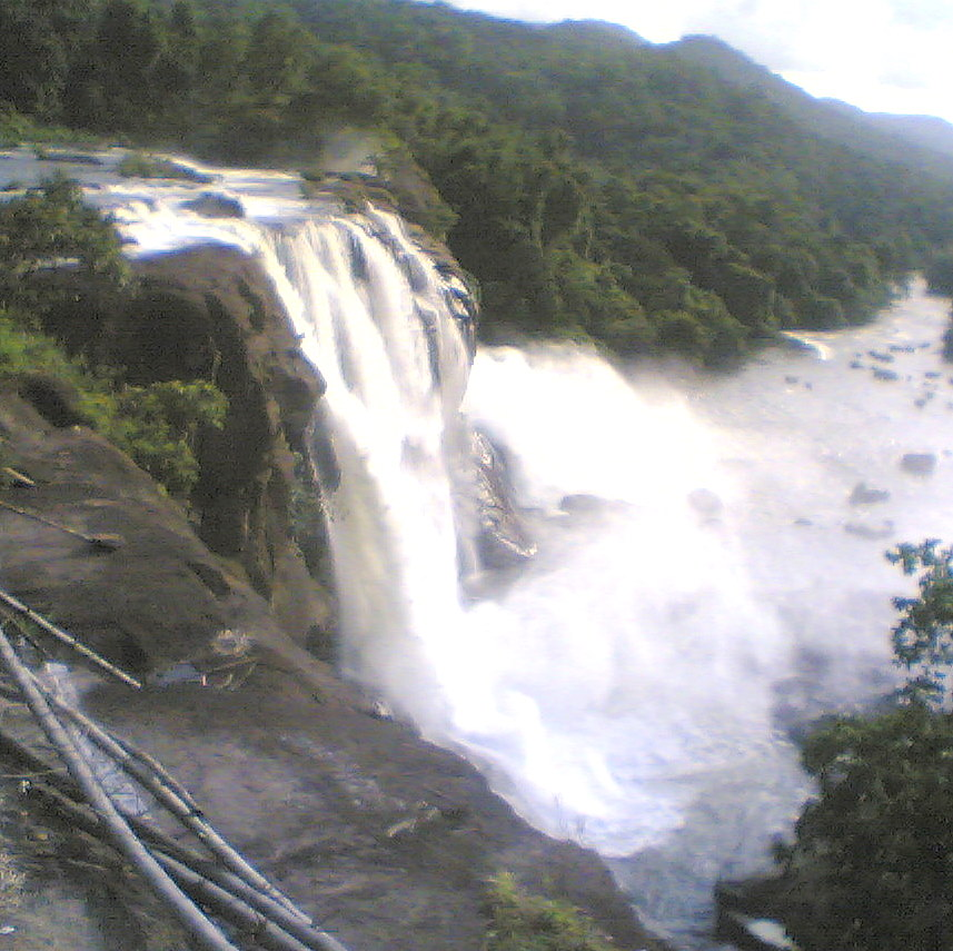 This photo was taken by myself Dr.Binoj Mathew on my visit to Athirappilly falls. This photo is intended for use on the article on Athirappilly falls.